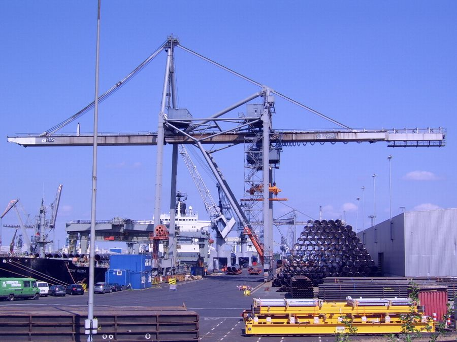 Portal cran in the Neustadter Hafen.